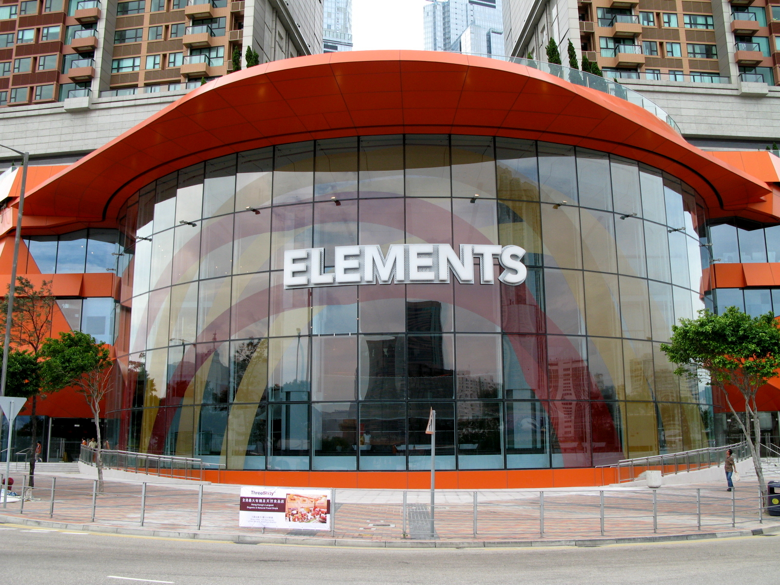 HK Elements Shopping Mall Enterance